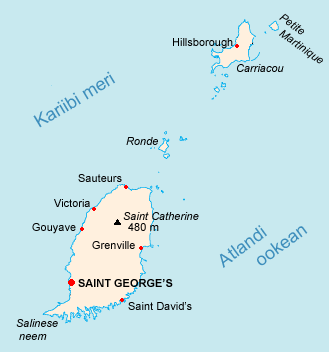 Map in Estonian of Grenada.